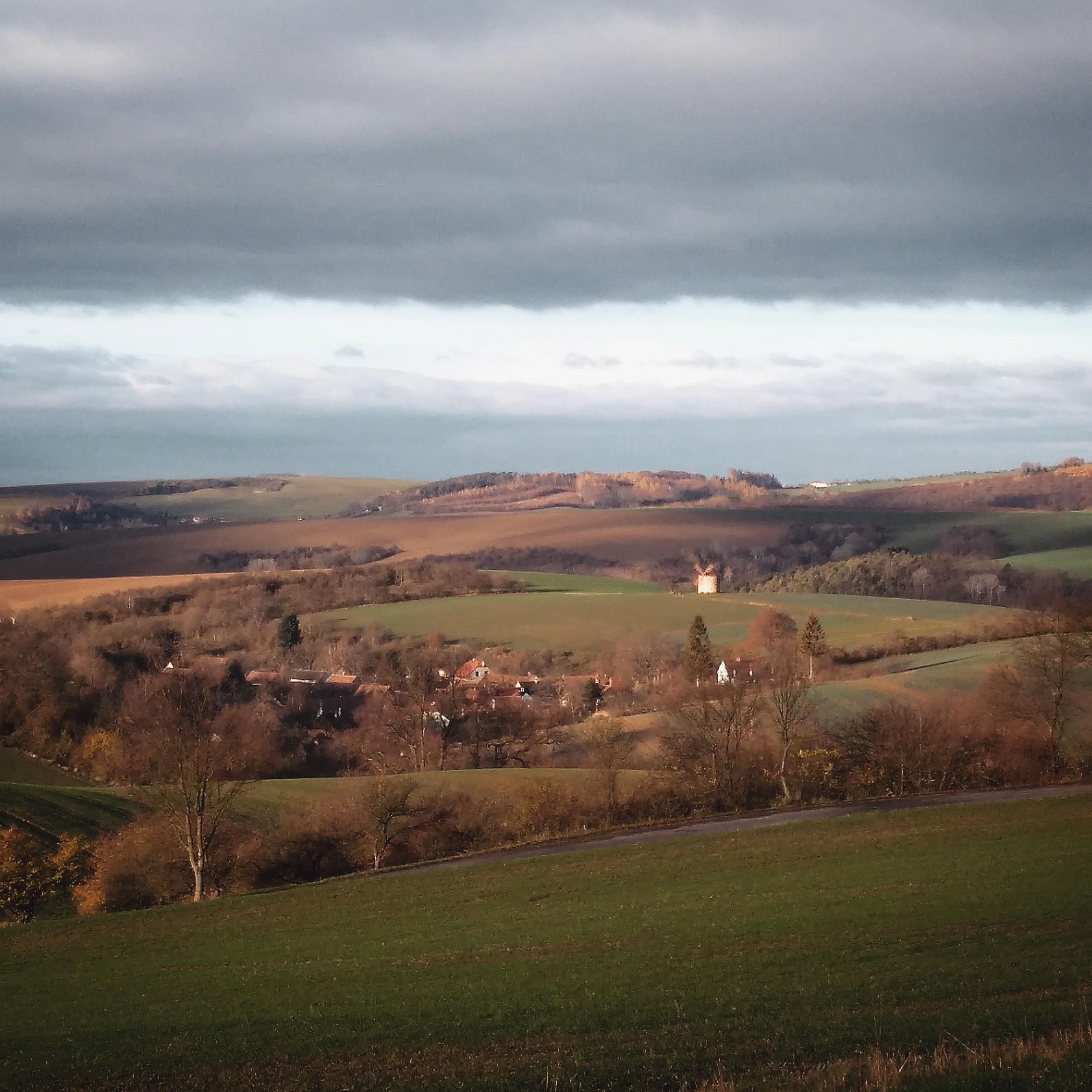 Autumn view of Kunkovice, Zlin, Czech Republic